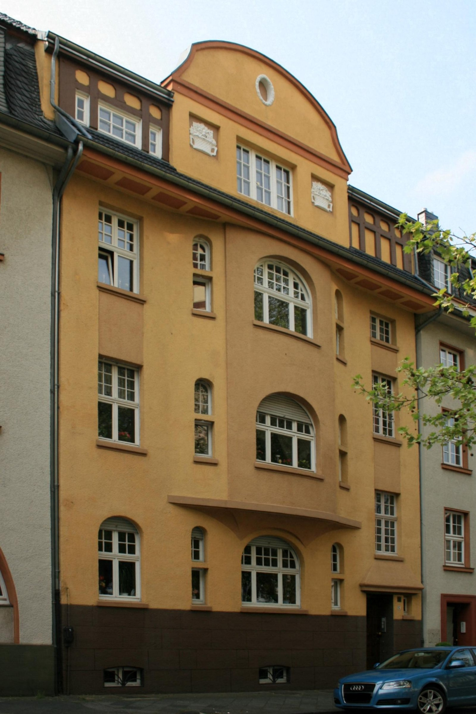 Cultural heritage monument No. A 002 in Mönchengladbach